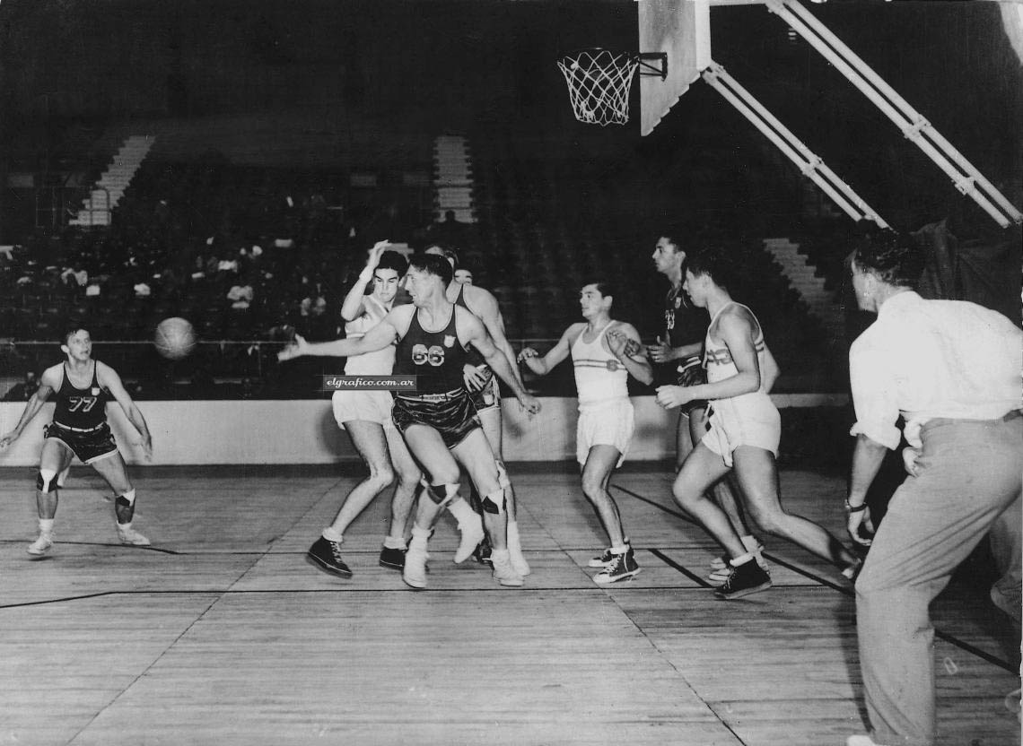 Basketball at the Summer Olympics, Argentina (57) v USA (59).